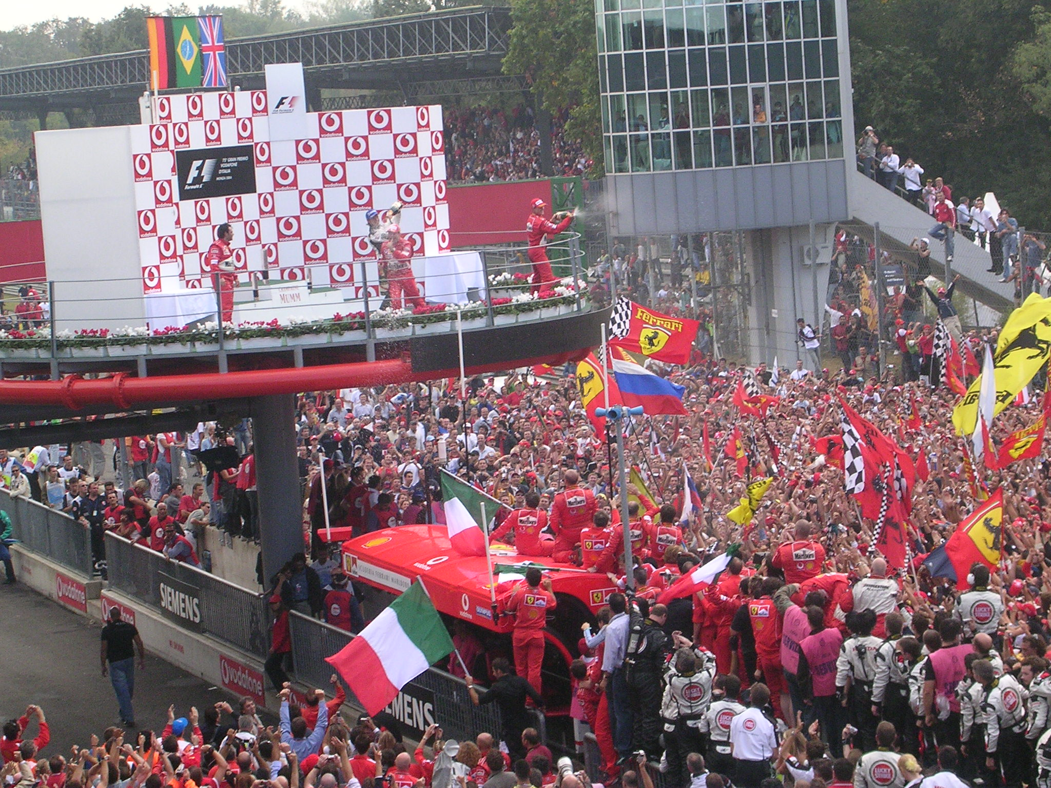 The Autrodomo Nazionale of Monza (italy) during a race in september 2004